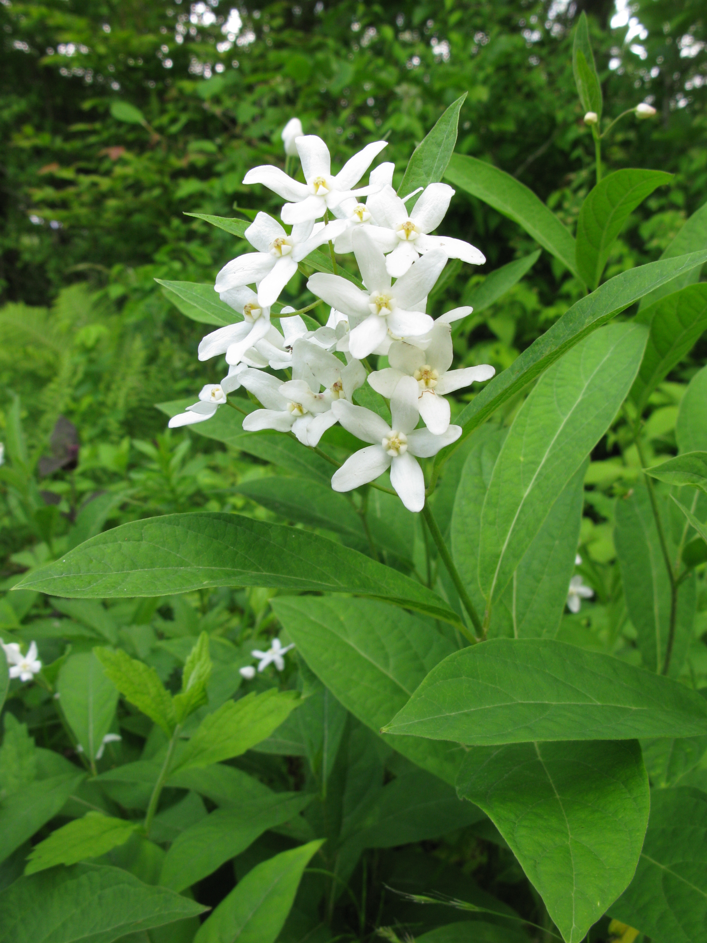 Vincetoxicum acuminatum — in the Hakone Botanical Garden of Wetlands, Kanagawa pref., Japan.